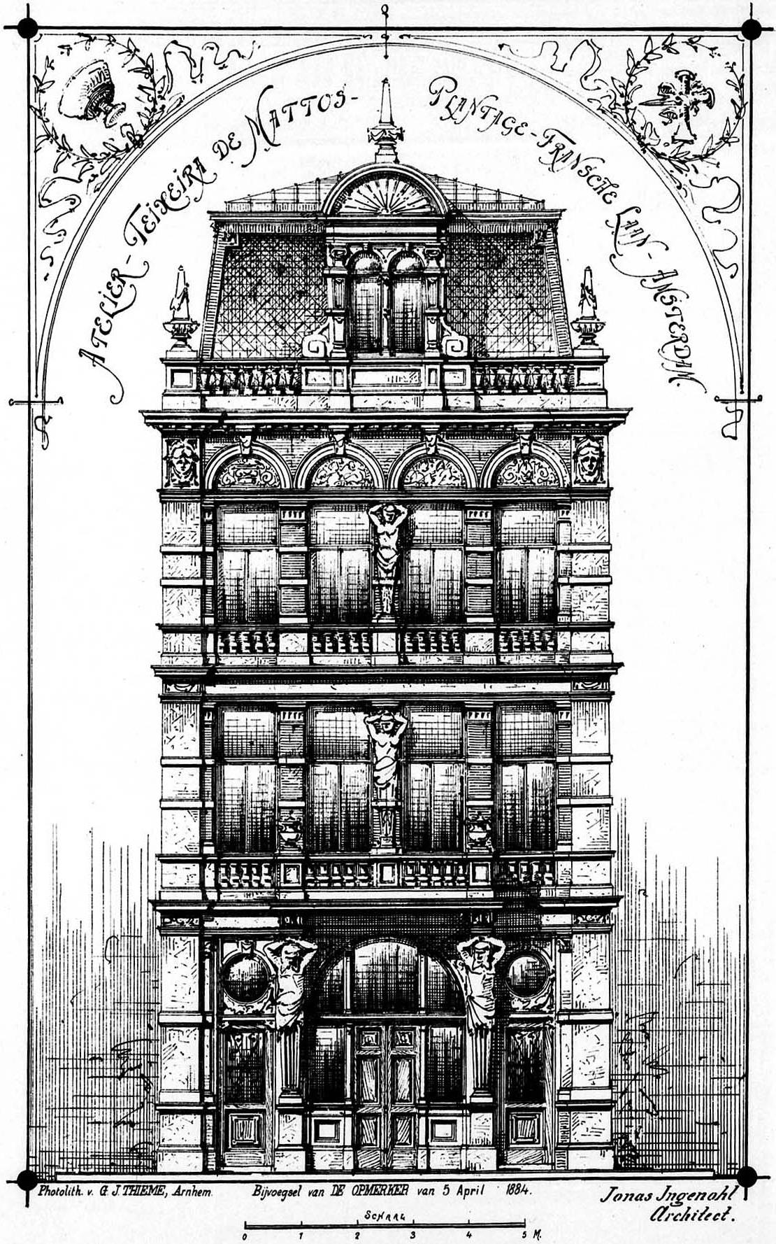 Sudio of H.J. Teixeira de Mattos, Amsterdam.